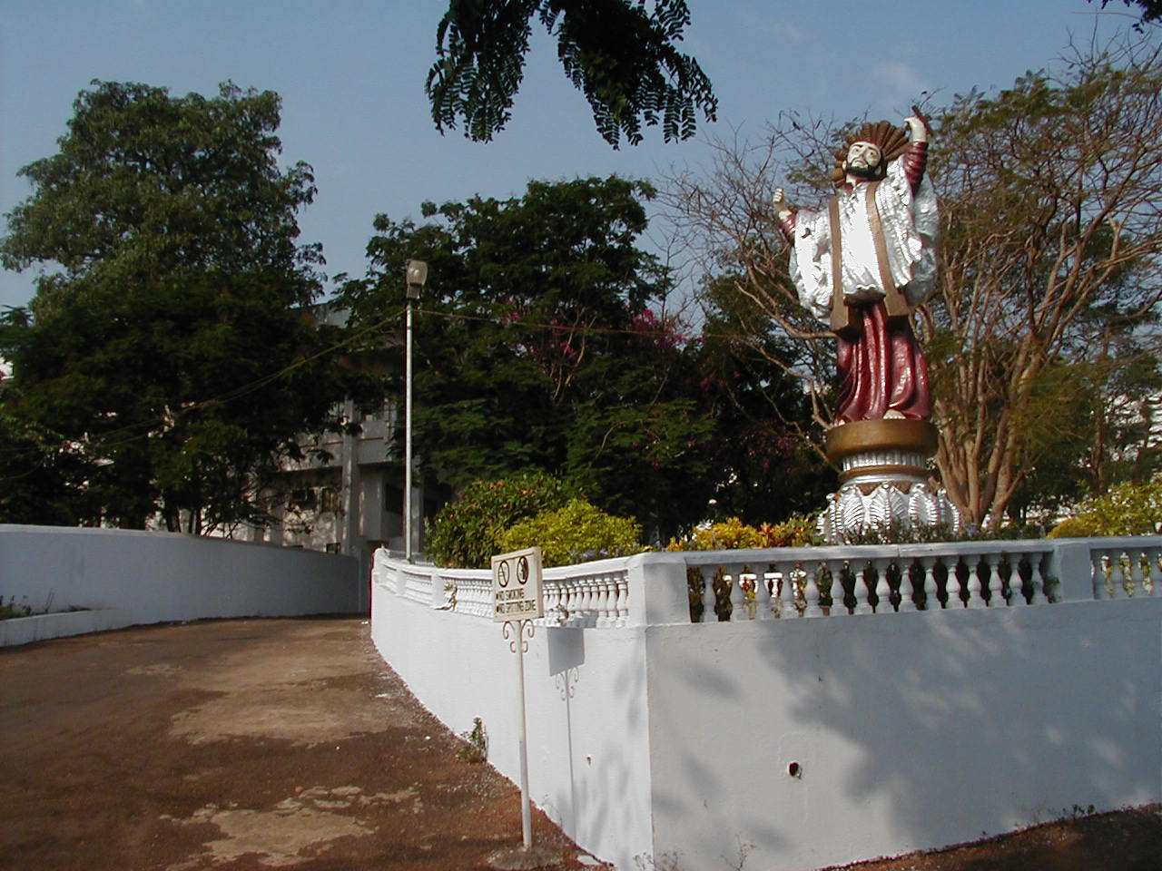 Entrance to St Xavier's College, Mapusa. Goa Photo by Frederick "FN" Noronha. 2006.